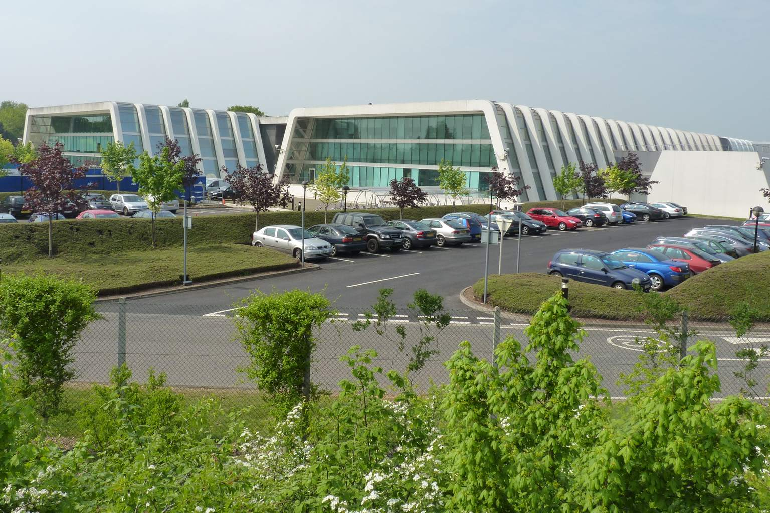 Cambridge Science Park Napp Pharmaceutical Group building from the A14 interchange ramp in April 2011.